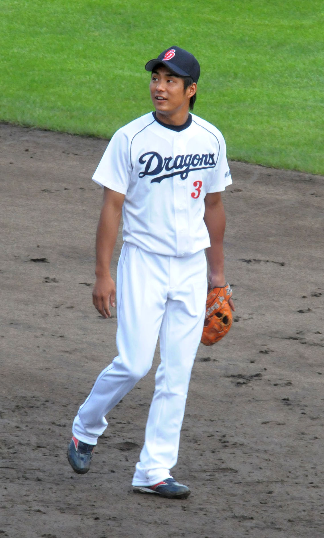 Daiki Yoshikawa, infielder of the Chunichi Dragons, at Akita Prefectural Baseball Stadium.